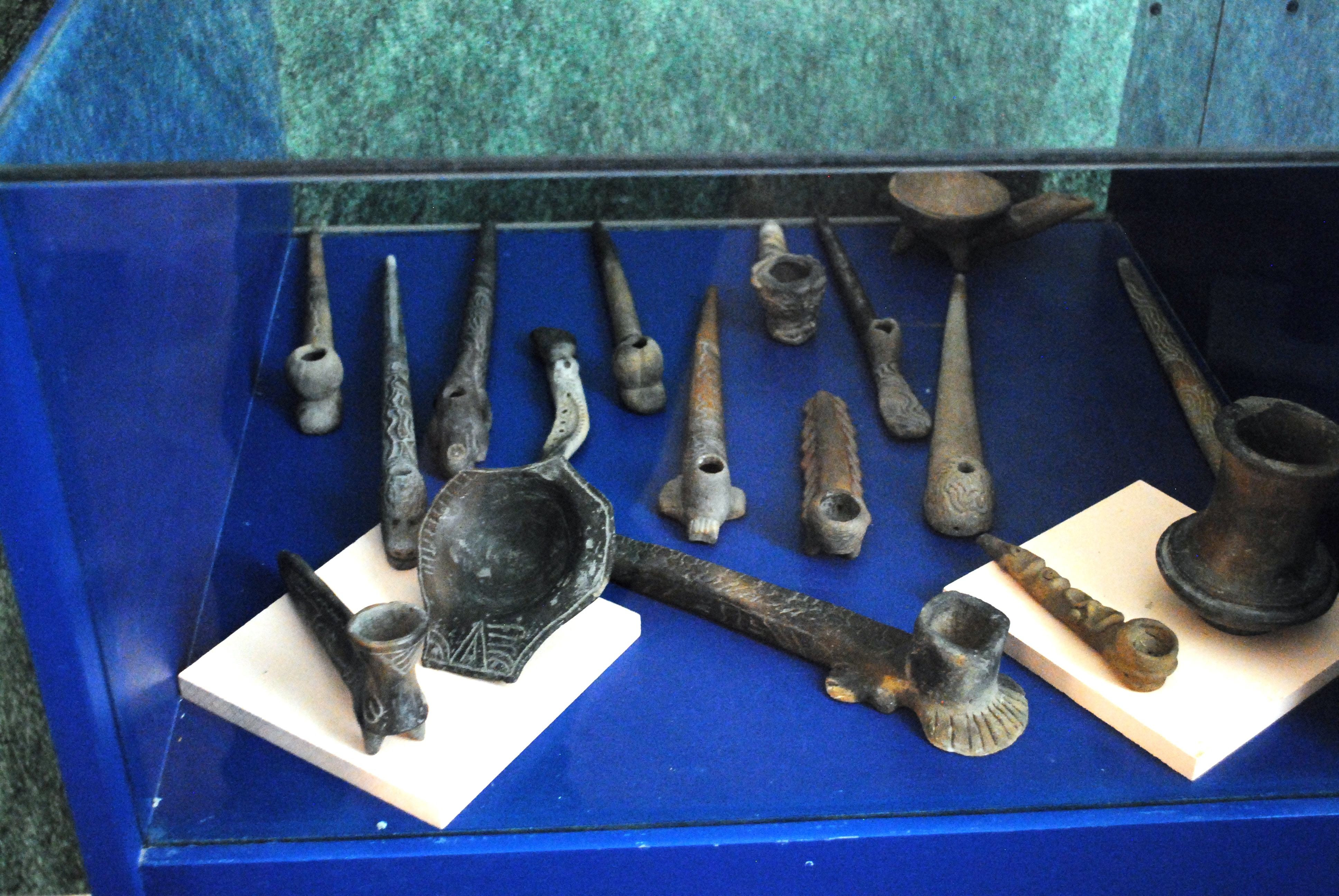 Muzeo Julsrud